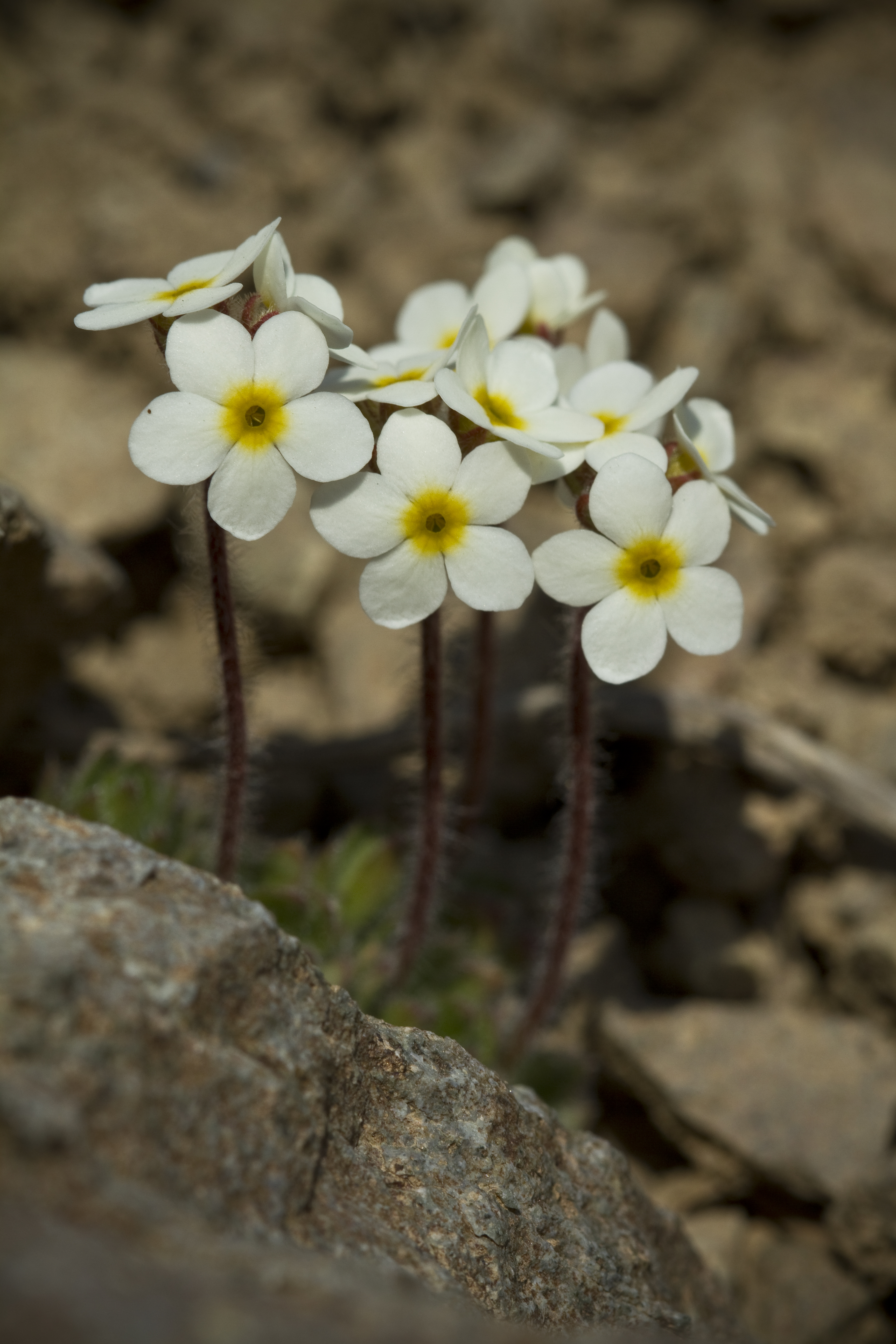 Androsace chamaejasme, Denali National Park and Preserve, AK, USA